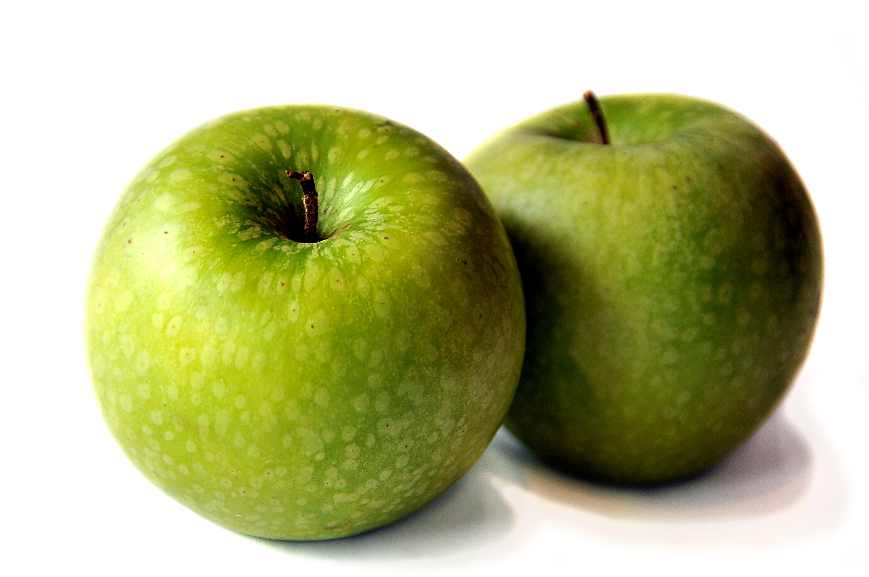 Granny Smith